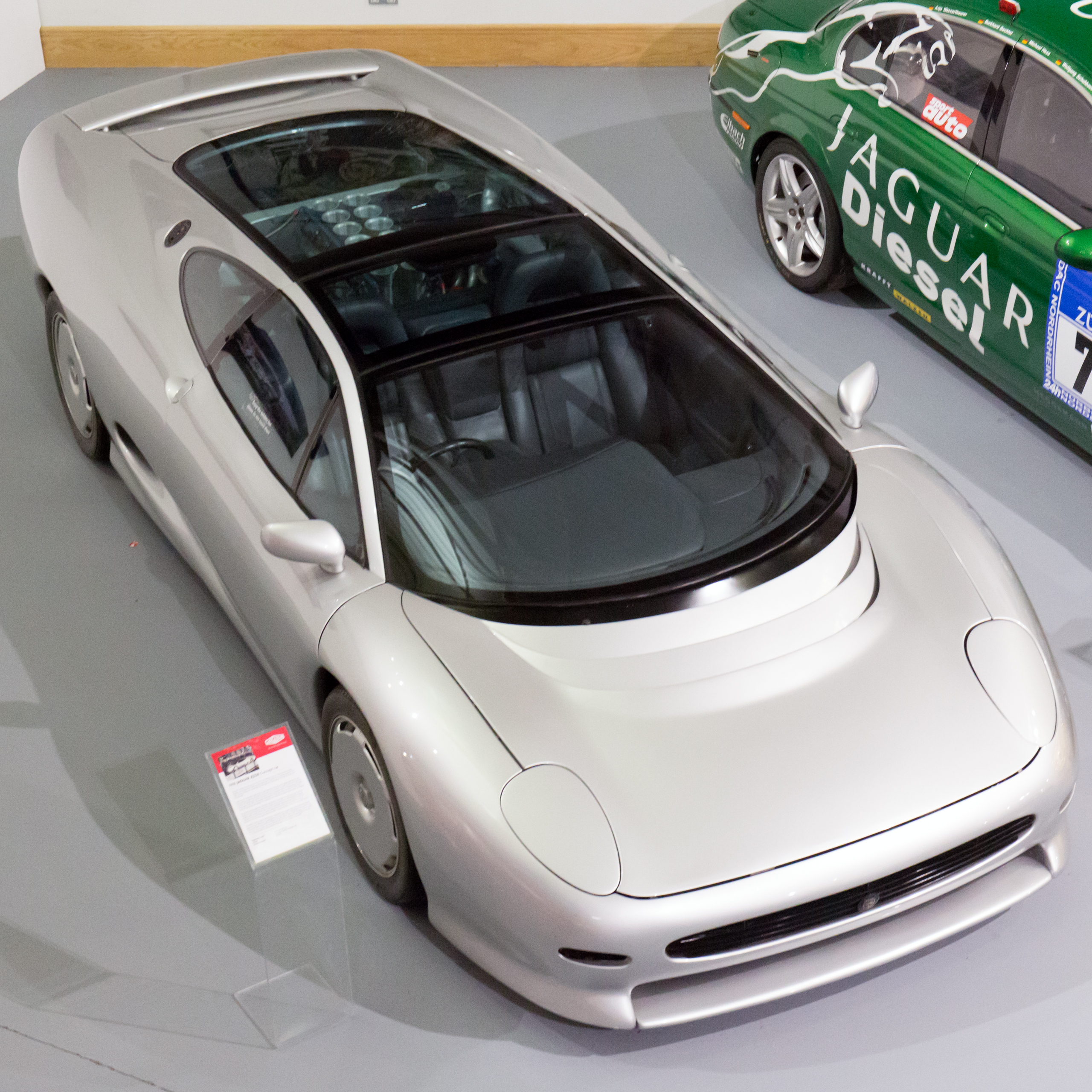 1988 Jaguar XJ220 Concept